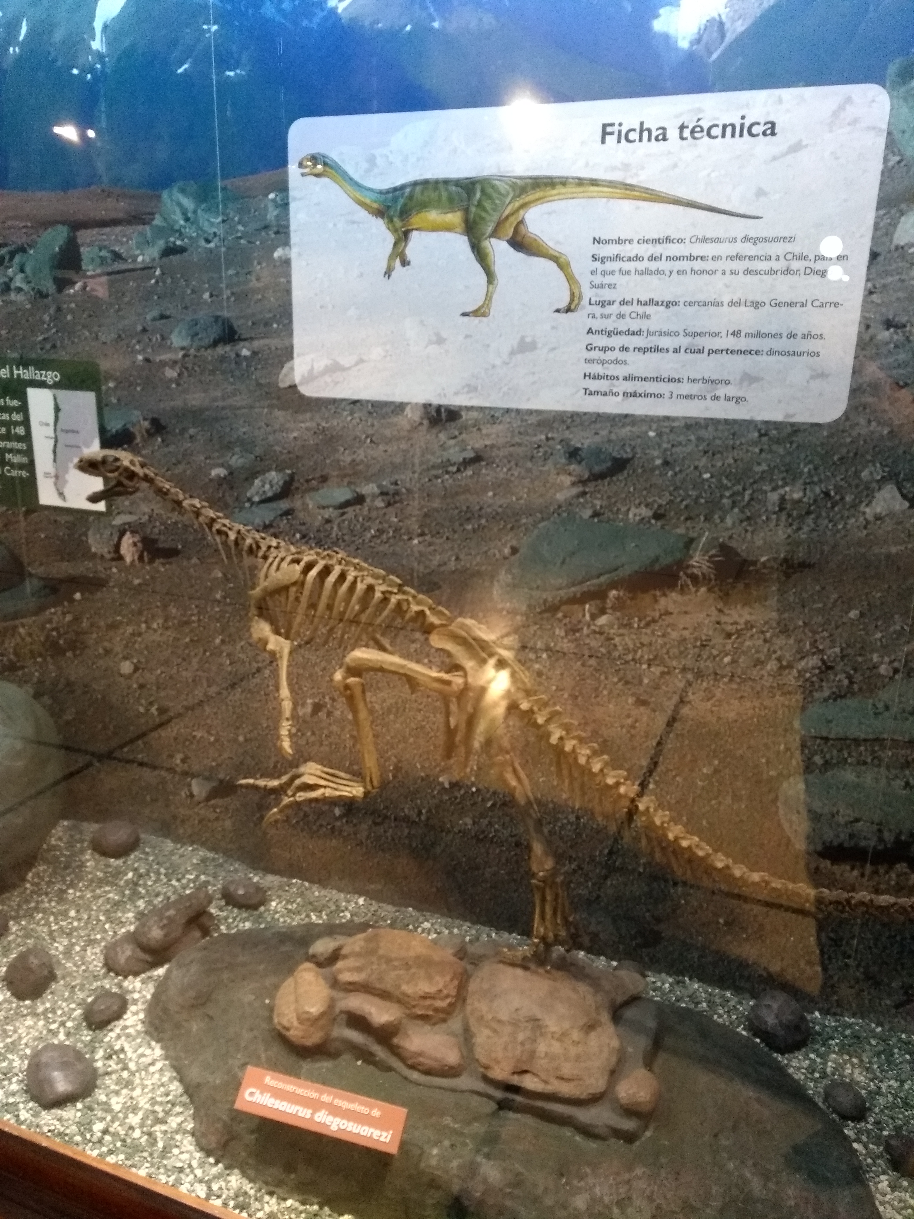 Chilesaurus diegosuarezi